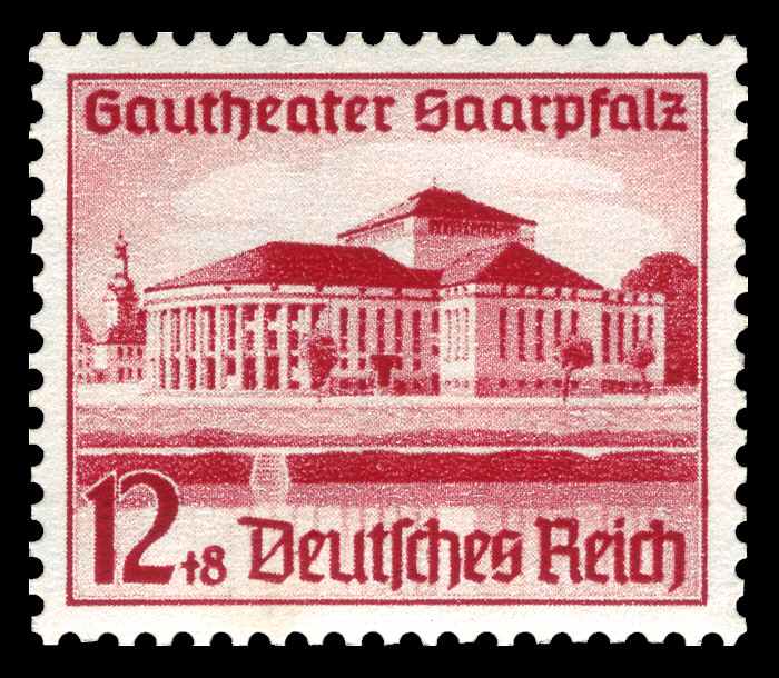 grand opening of the theater Saarpfalz in Saarbrücken Ausgabepreis: 12+8 Pfennig First Day of Issue / Erstausgabetag: 9. Oktober 1938 Michel-Katalog-Nr: 674 (Deutsches Reich)